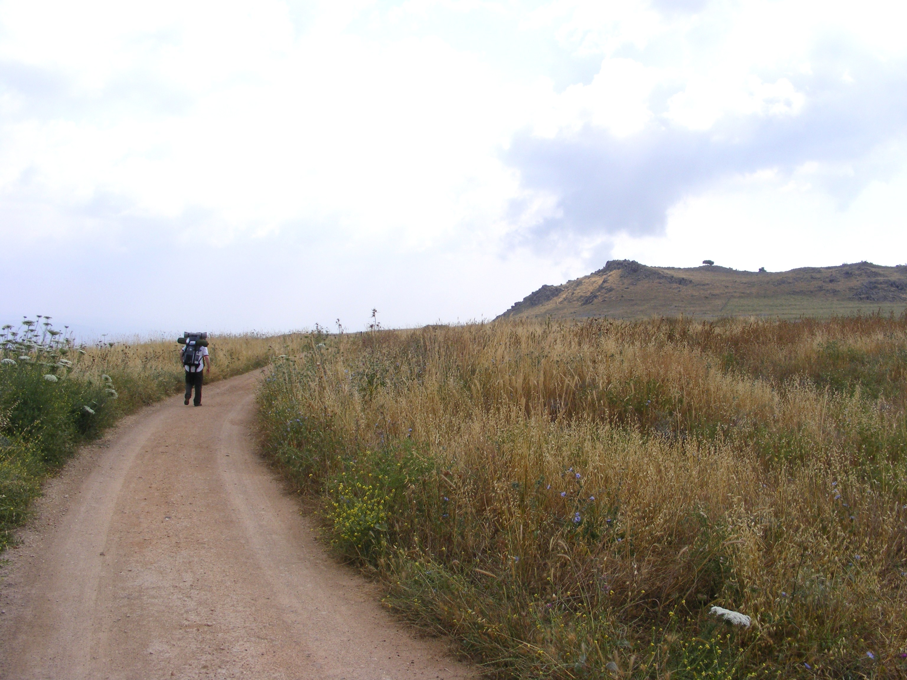 On the Jesus Trail passing the Horns of Hattin